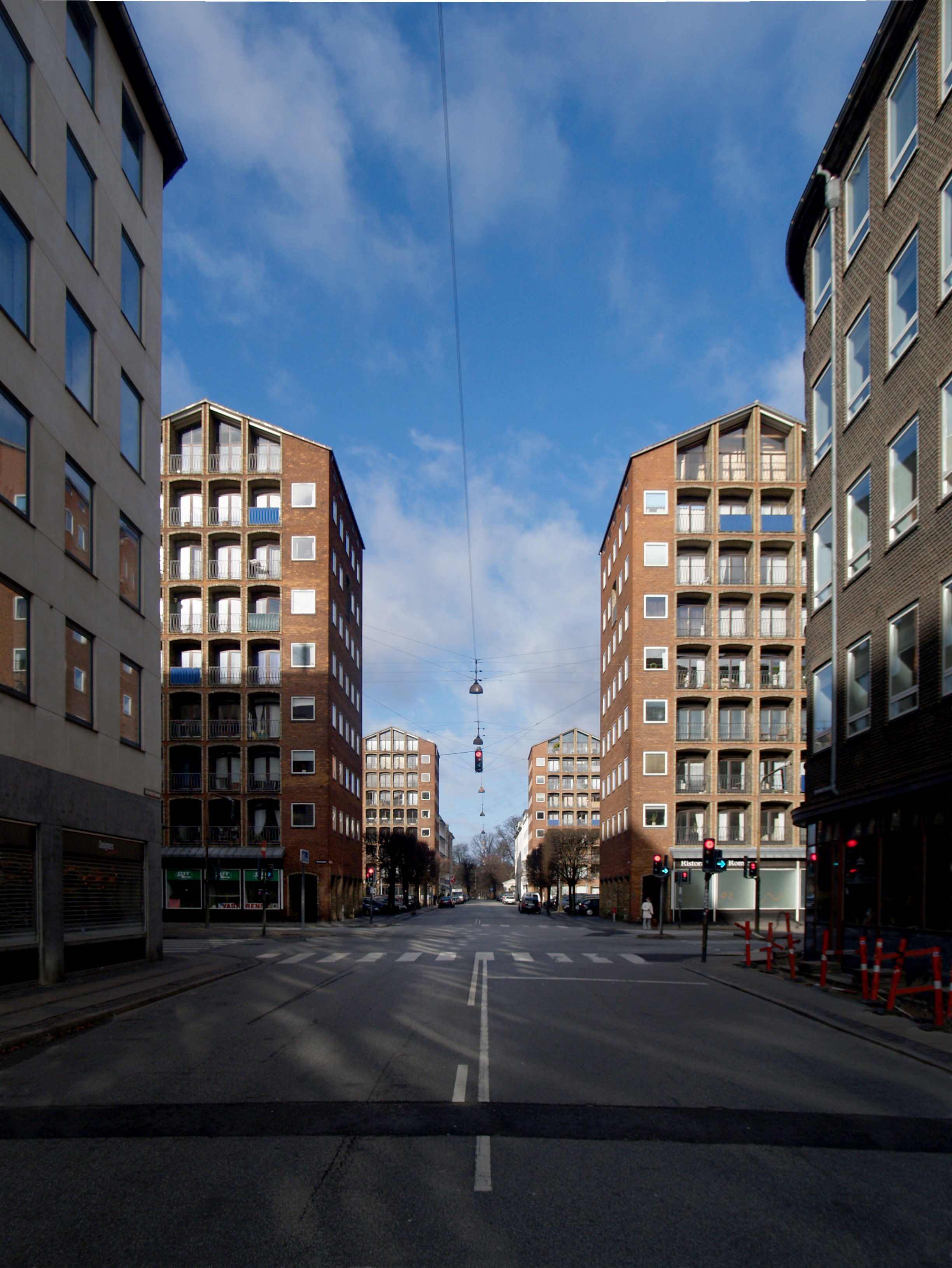 Building: dronningegården housing, copenhagen, denmark 1943-1958. architects: kay fisker with eske kristensen and c.f. møller.